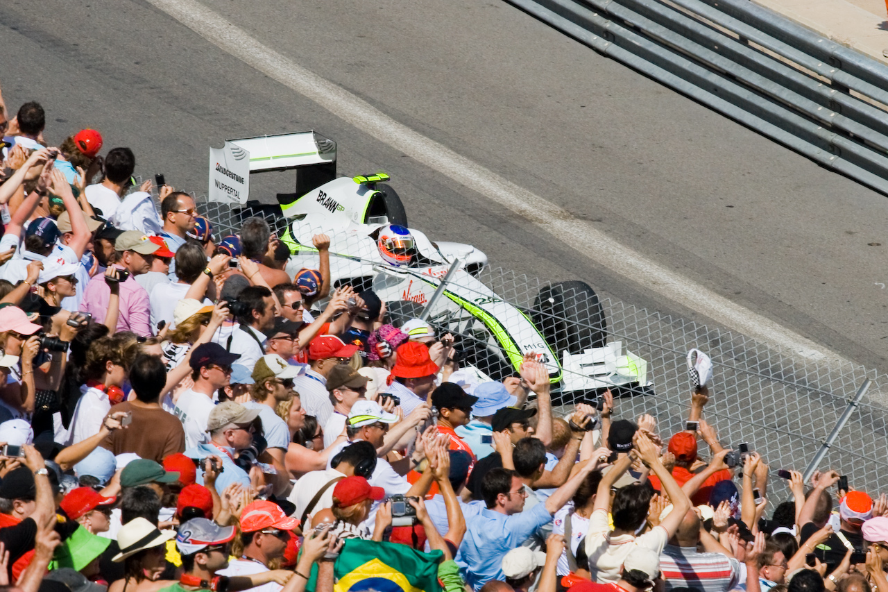 Rubens Barrichello at the 2009 Monaco Grand Prix, Monte Carlo, Monaco.